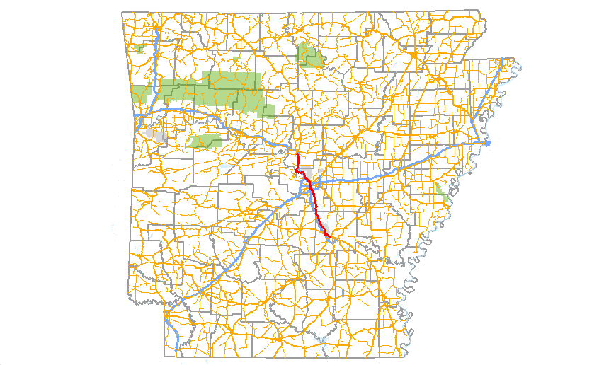 Arkansas Highway 365 highlighted in red. Created using freely available GIS data.